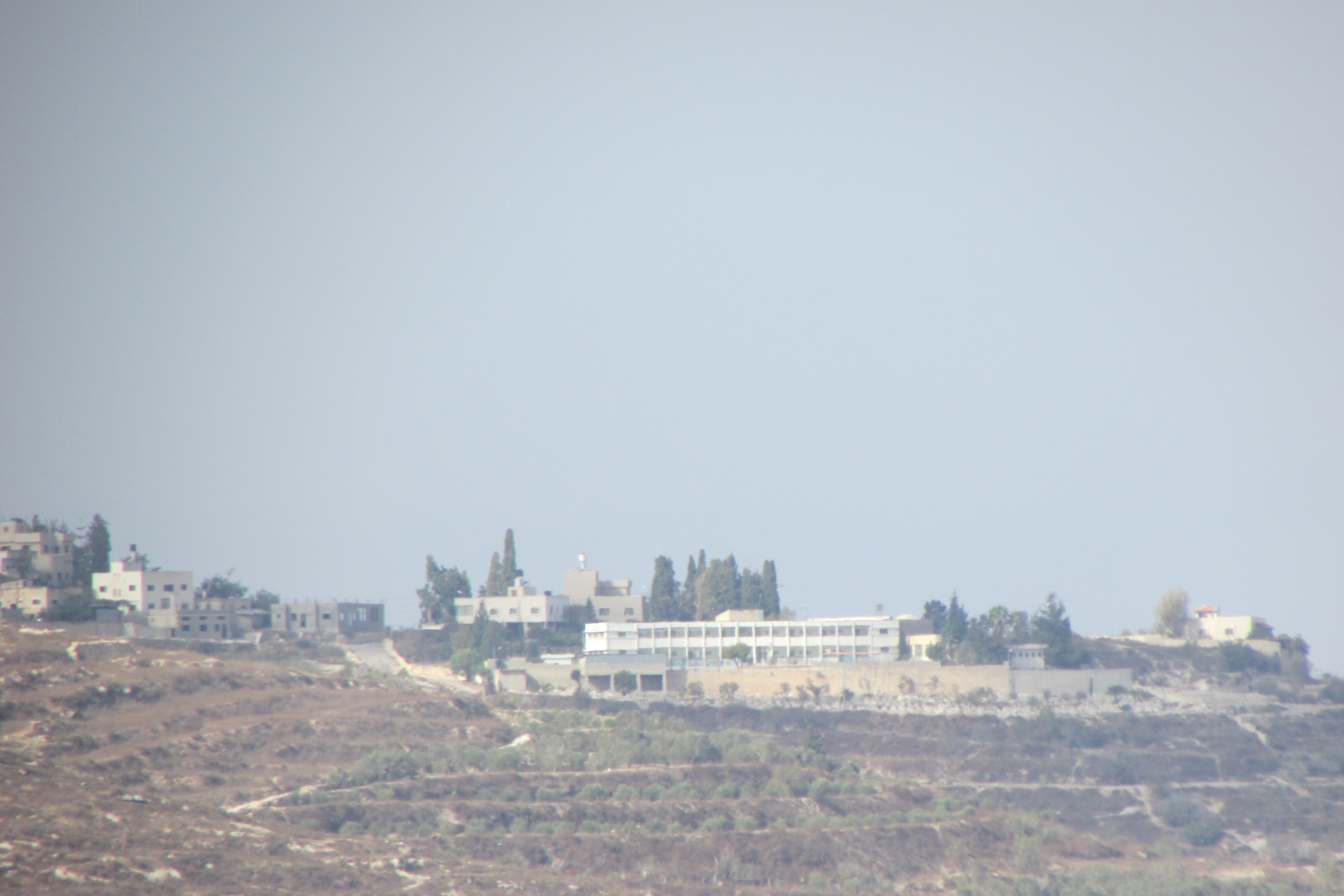 Beit Lid from Shavei Shomron. School